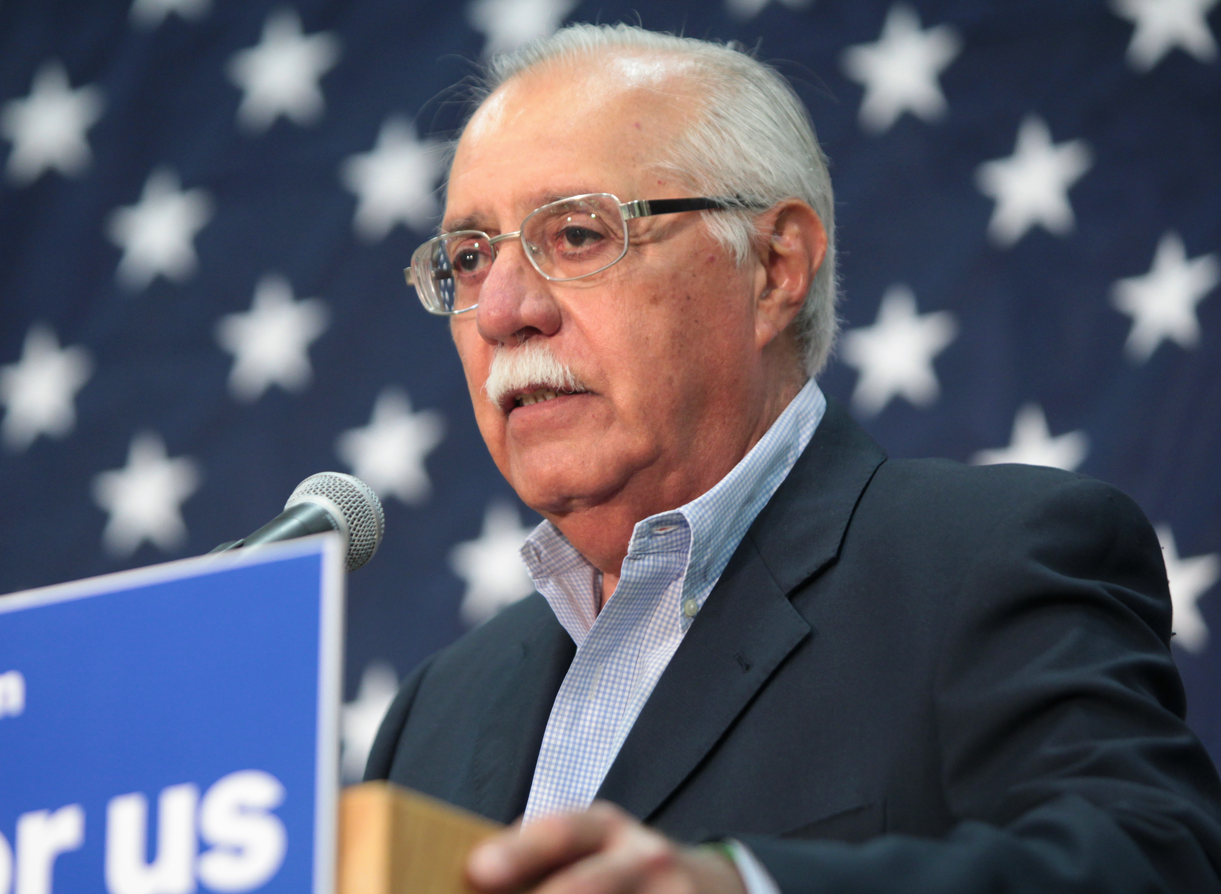 Ed Pastor speaking at an event in Phoenix, Arizona.